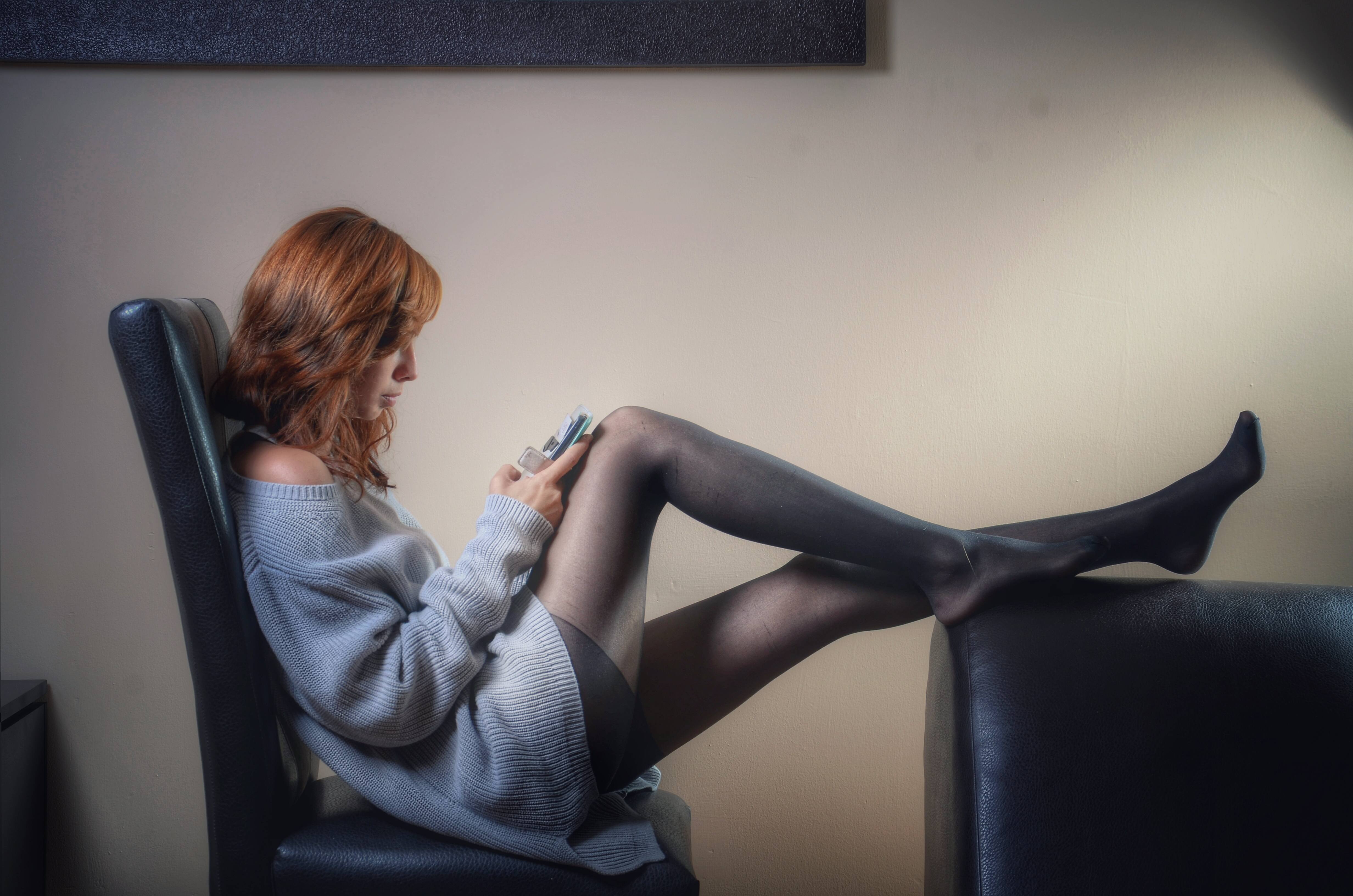 Social network - by JClks